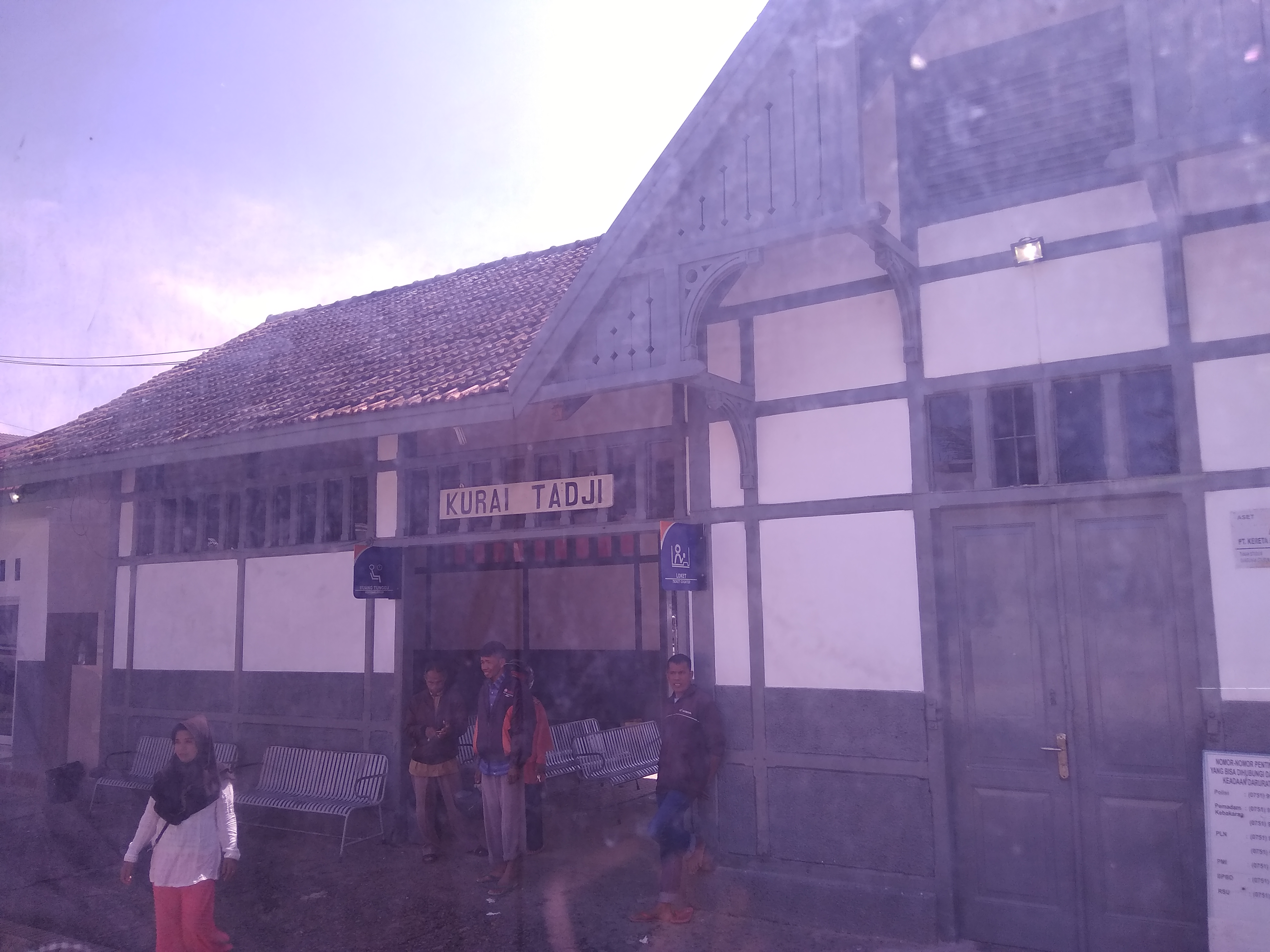 Kurai Taji train stop in Pariaman city, West Sumatra, Indonesia. This stop was photographed from the Sibinuang Railway in the Padang-Pariaman line.